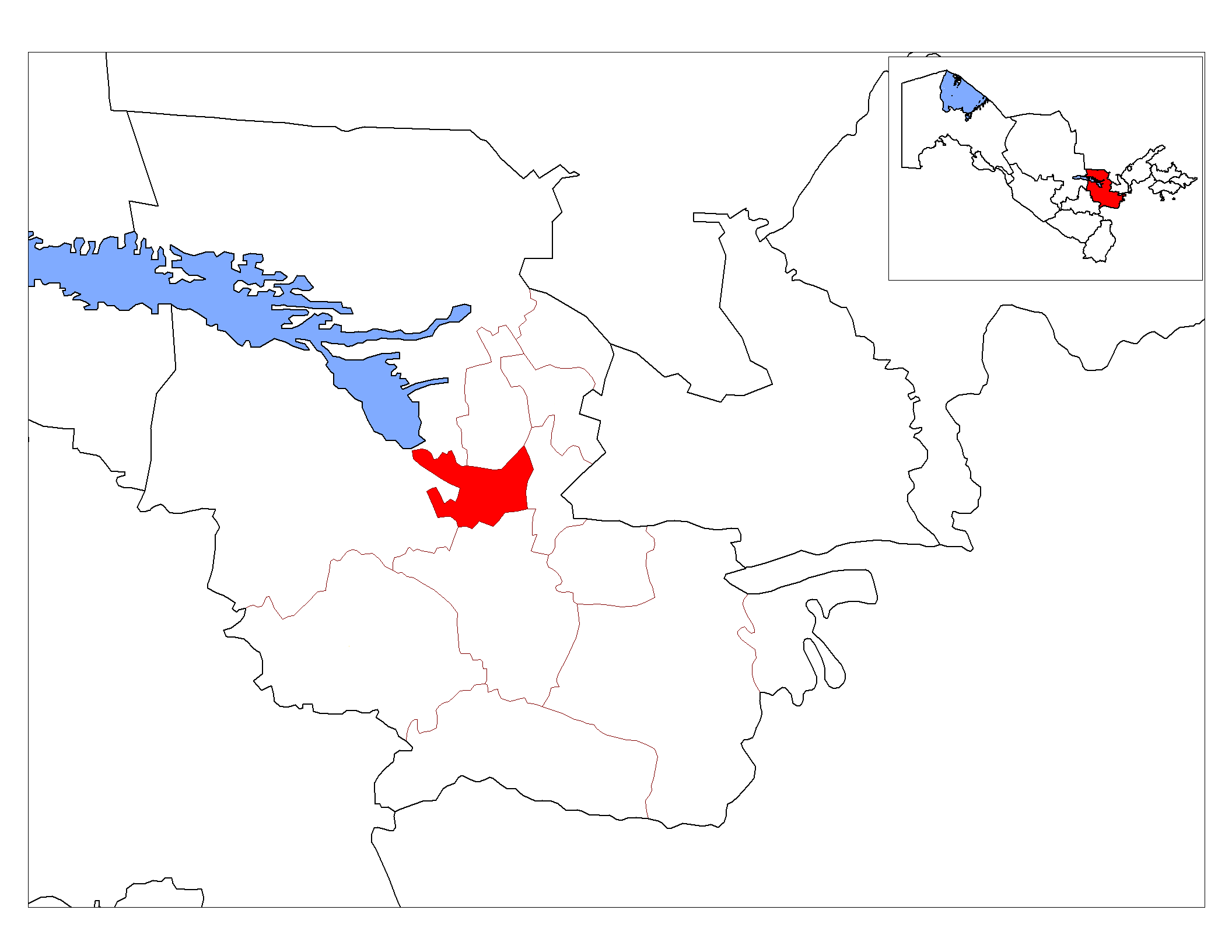 Location map of Zafarobod District in Jizzax Province, Uzbekistan